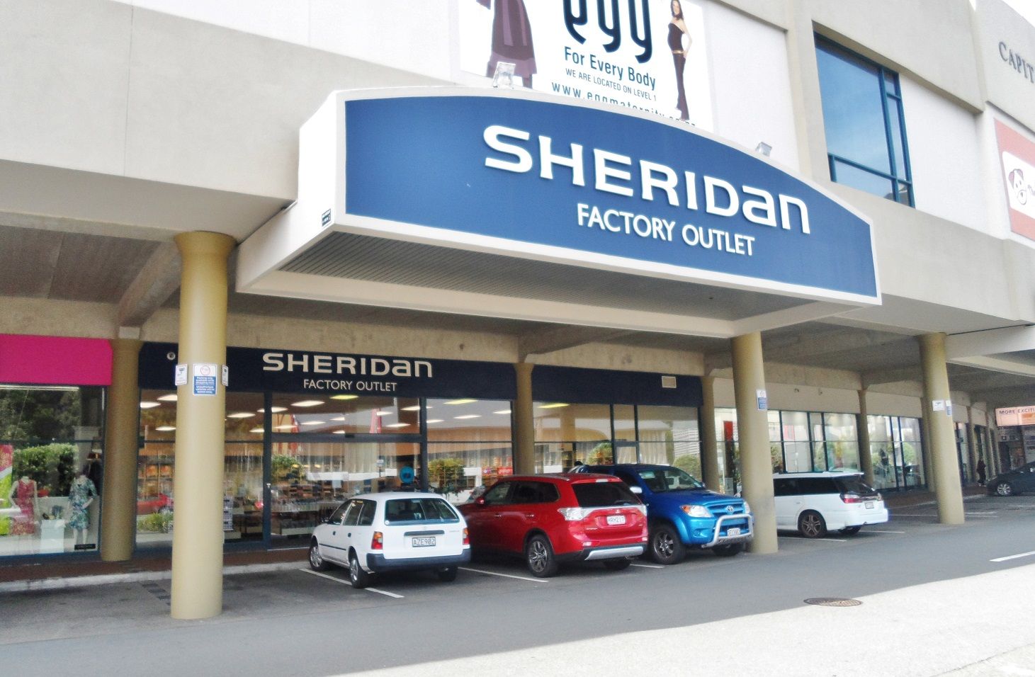 Sheridan Factory Outlet store in Wellington, New Zealand in 2015.